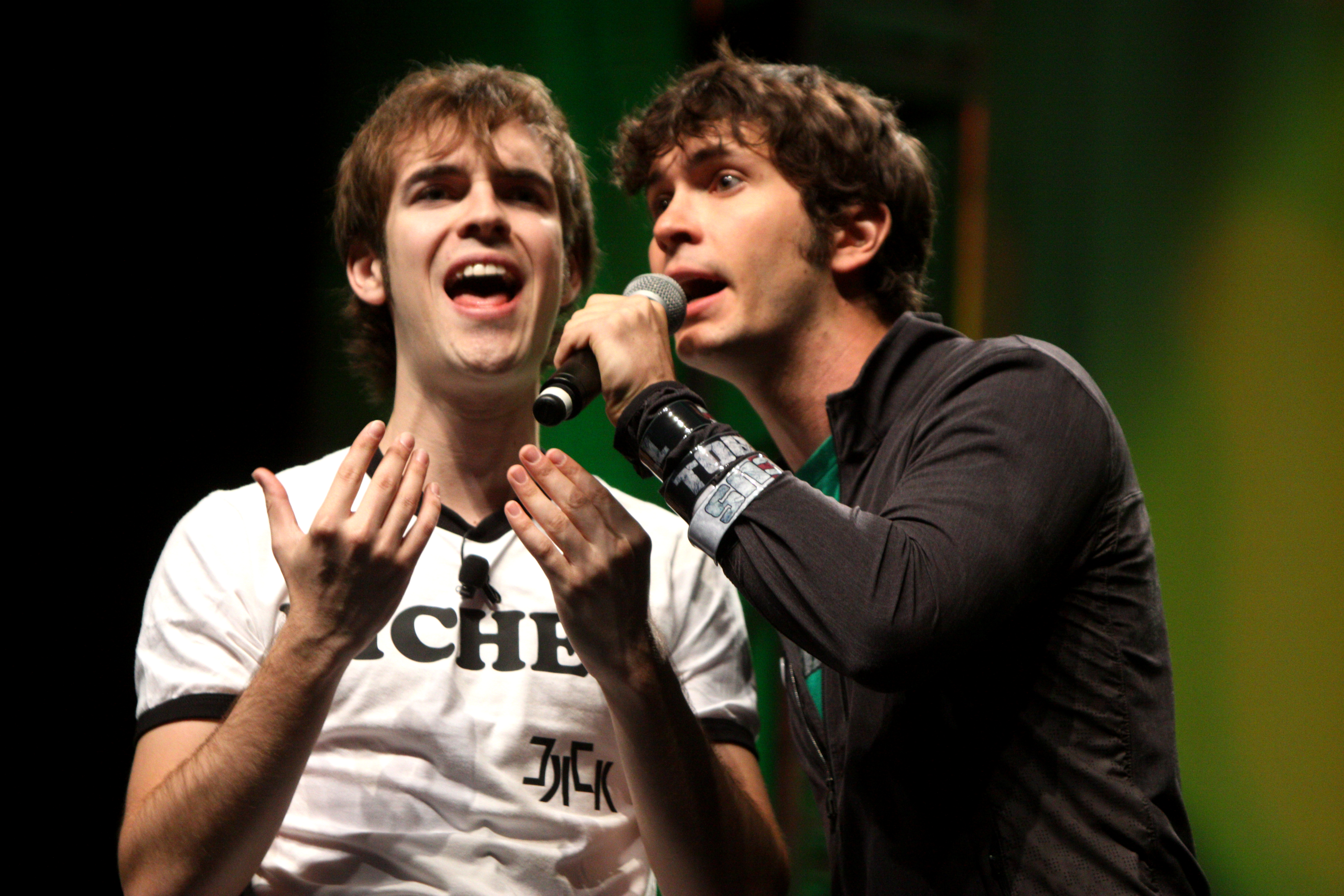 Toby Turner and Jack Douglass performing at VidCon 2012 in Anaheim, California on June 30, 2012